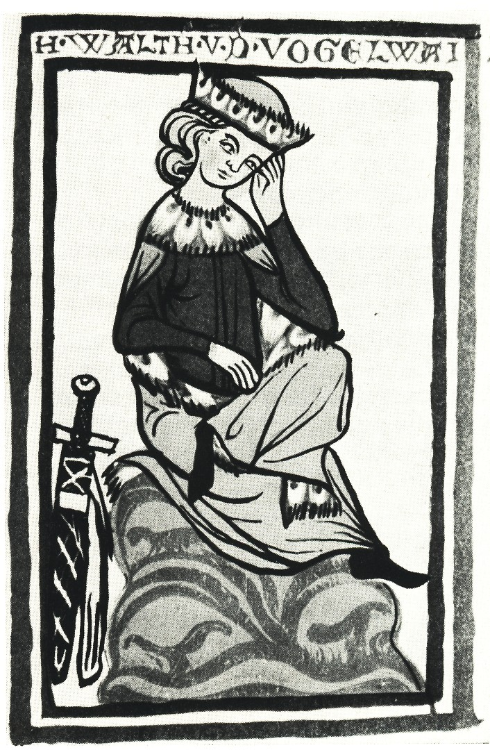 Walther von der Vogelweide as depicted in the Weingartner Liederhandschrift.